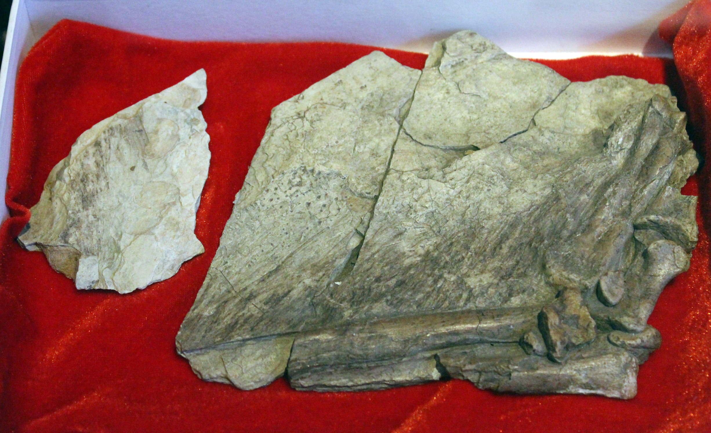 Beipiaosaurus inexpectus feathers on display at the Paleozoological Museum of China.